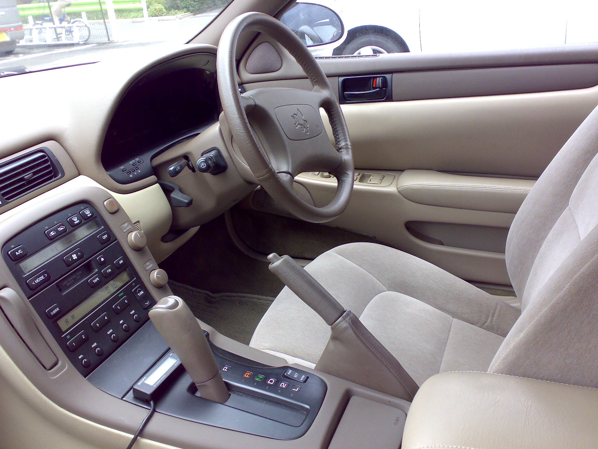 Nerima-ku, Tokyo, Japan.